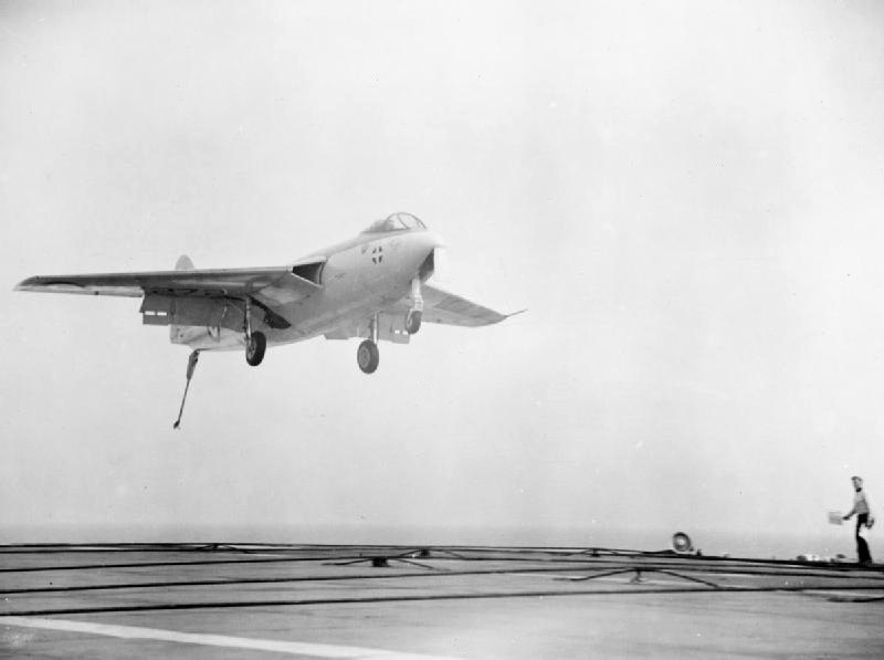 A Hawker P.1052 swept wing experimental fighter (XV272) landing on the Royal Navy aircraft carrier HMS Eagle (R05) during flying trials in the English Channel.